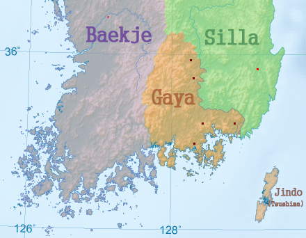 Map of Gaya (Version English)